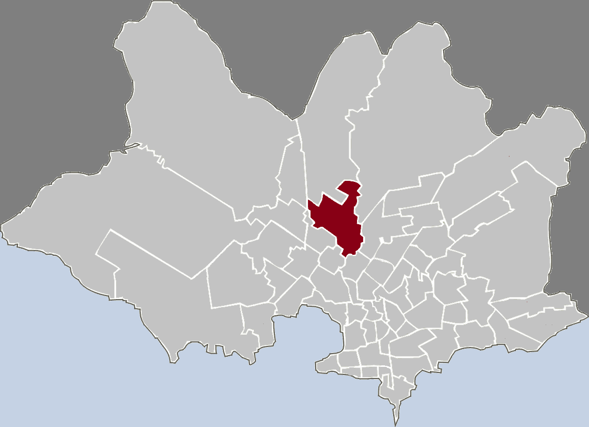 Blank map of the barrios of Montevideo